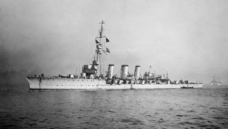 HMS GALATEA with original rig and 1914 armament.